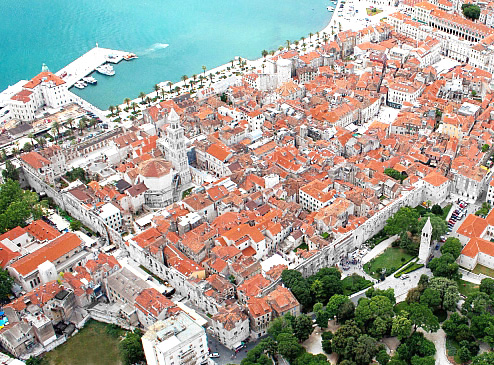 Split city center from the airplane.